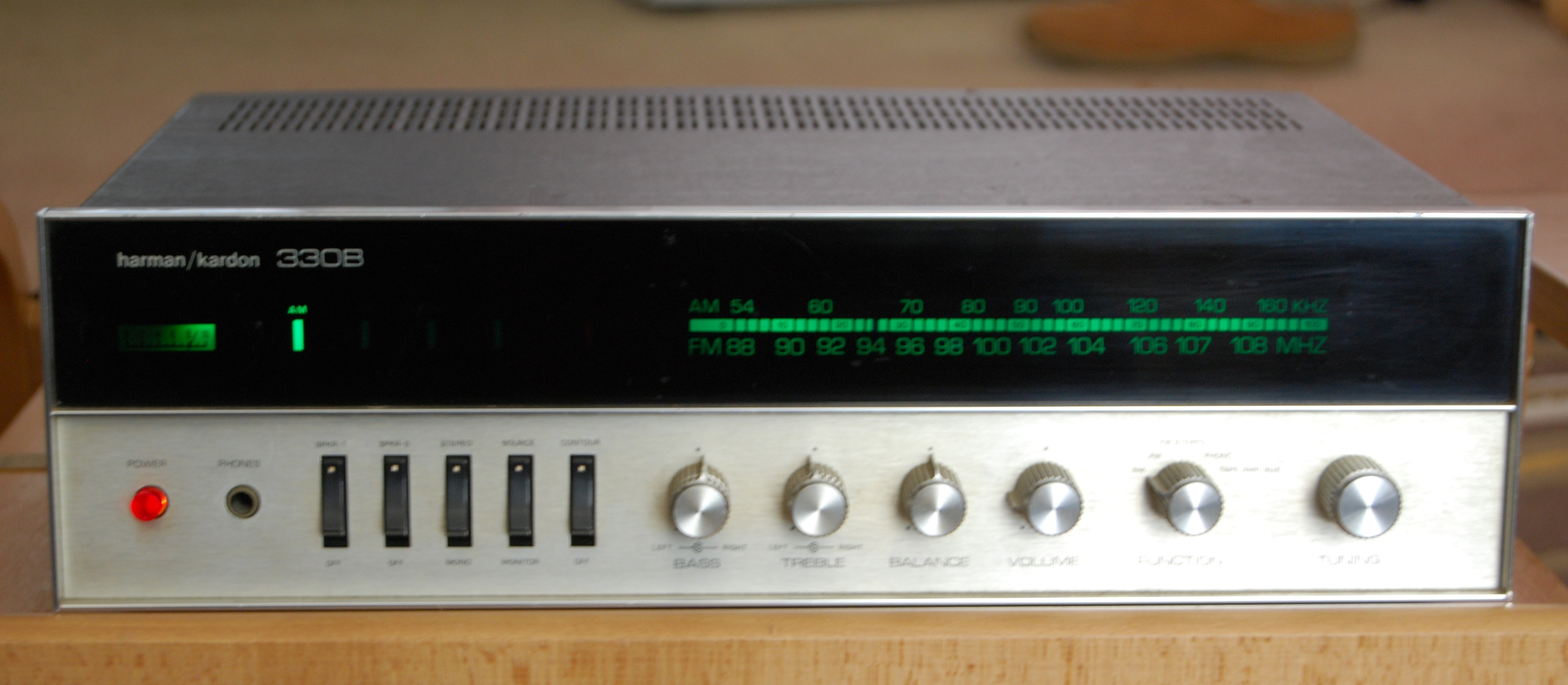 The Harman Kardon 330 series of stereo receivers date back to the late 1960's and continued to the end of the 1970's. They were basic entry level receivers, few in thrills but excellent performers, typical of Harman Kardon products. In 2004 Harman Kardon brings back the 330 legacy with the AVR-330 audio video receiver.